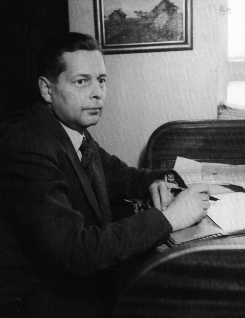 Photograph of the Finnish composer Sulho Ranta (1901–1960).